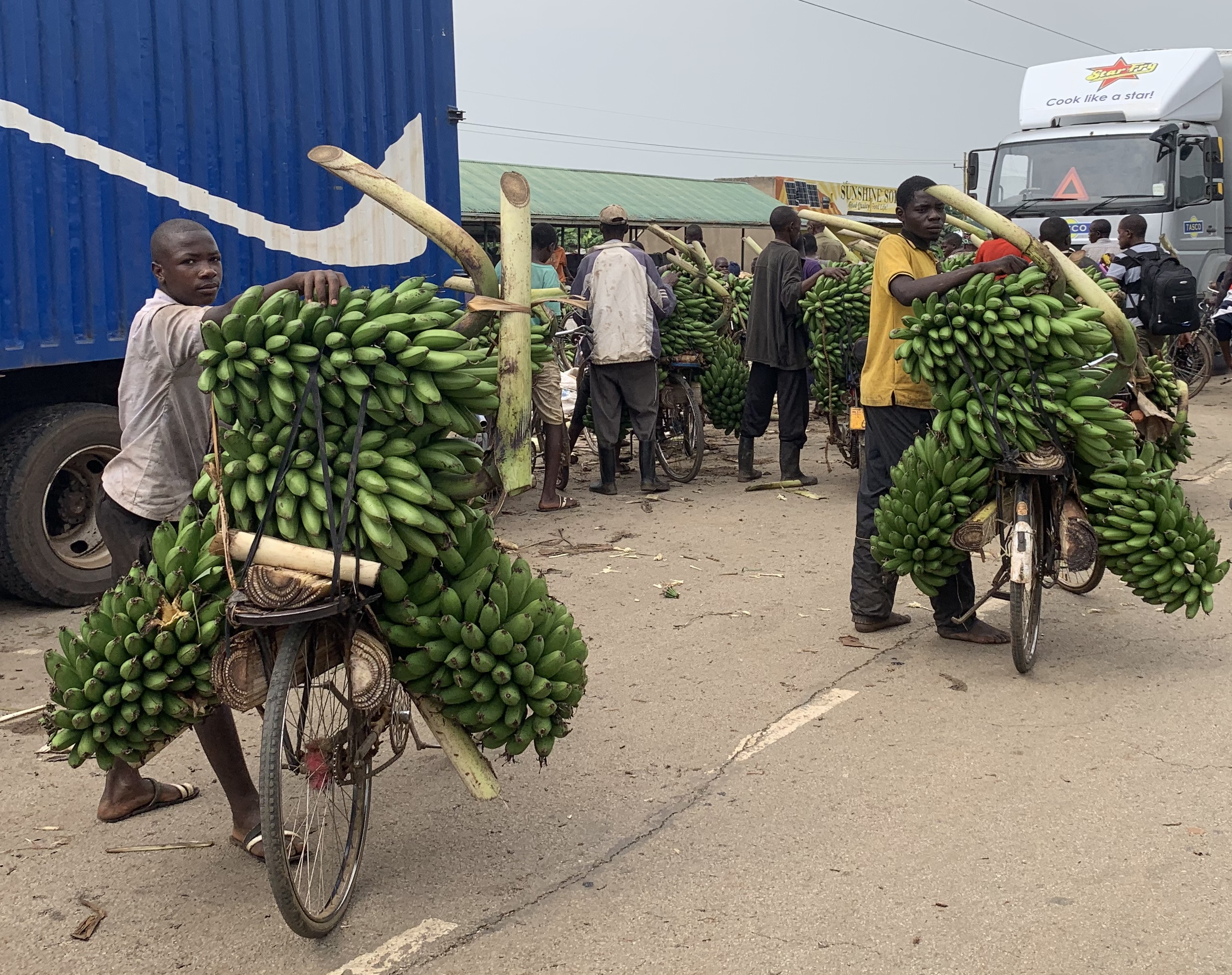 This is an image with the theme "Africa on the Move or Transport" from: Uganda